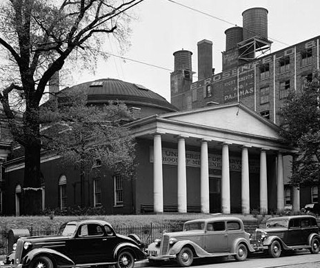 University of Maryland, Medical Building (Davidge Hall - 1936) — Greene & Lombard Streets, Baltimore (Independent City, Maryland) (cropped). Built in the Greek Revival style in 1812. A National Historic Landmark and on the National Register of Historic Places. Image courtesy of the federal HABS—Historic American Buildings Survey of Maryland.